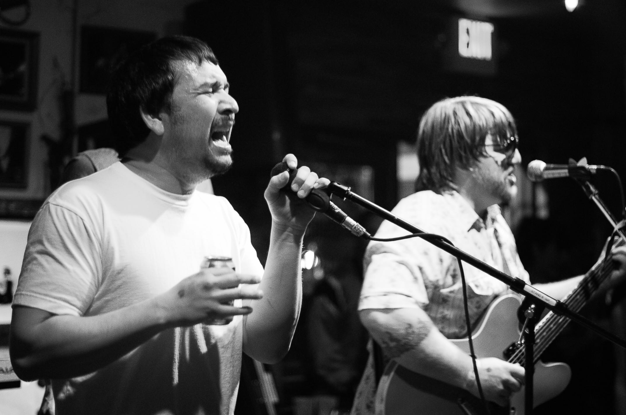 Black Camaro's Tom Miller (left) and Brian Garth (right) perform for Neon Reverb in Las Vegas